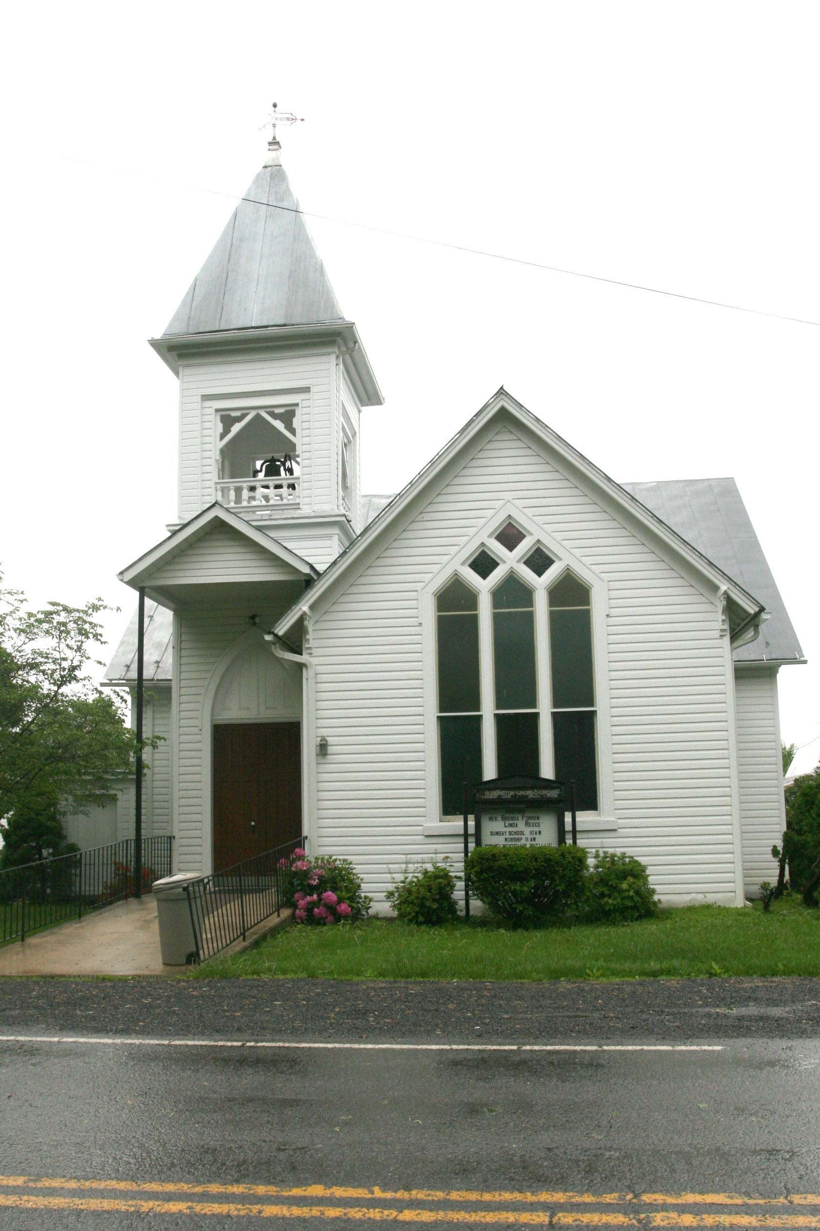 Burlington Union Church in Burlington, Mineral County, West Virginia